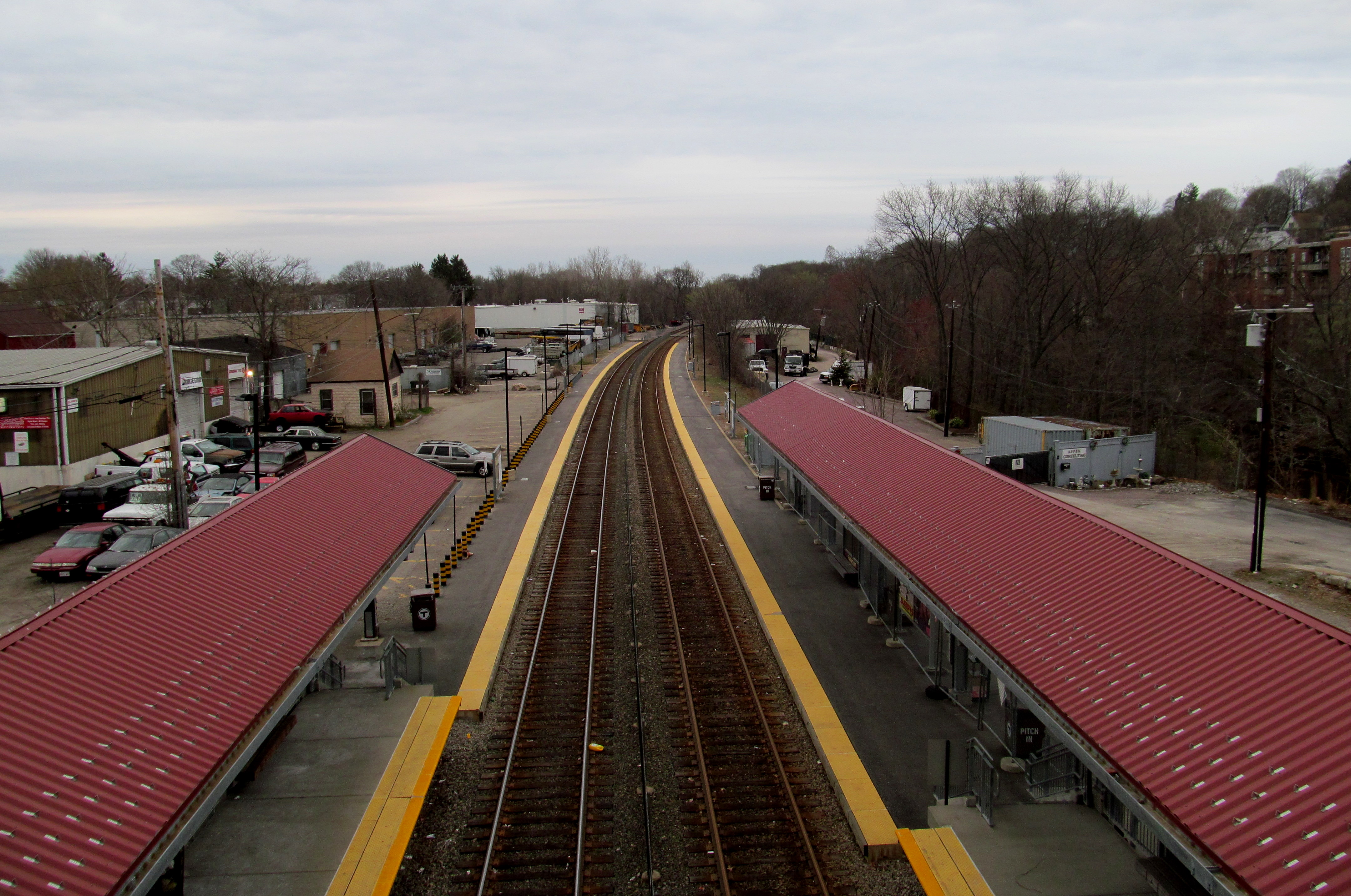 Fairmount station on the MBTA Fairmount Line, viewed from the Fairmount Avenue bridge. This view faces northeast, inbound to Boston.